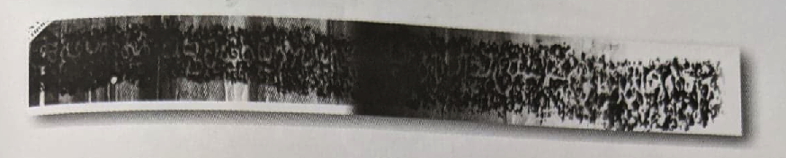 Velgam Vihara Tamil inscriptions, 11th century AD d